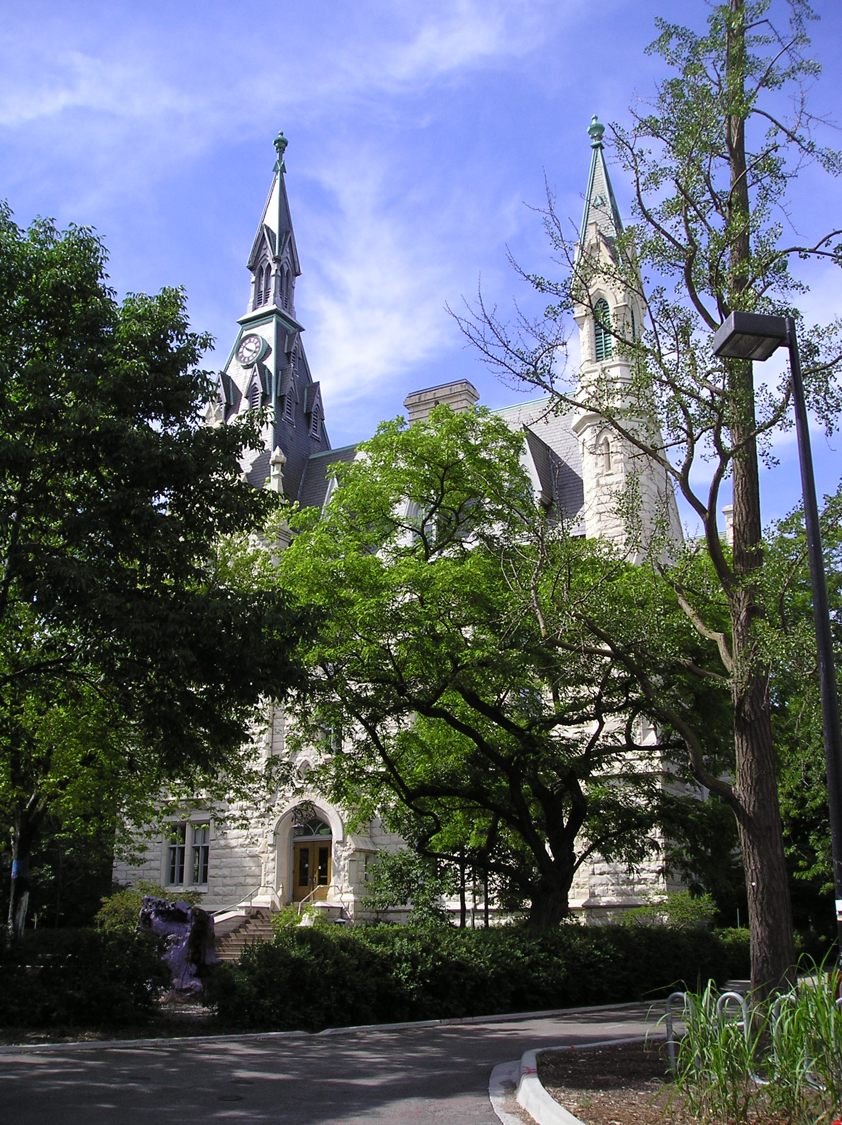 University Hall at Northwestern University in Evanston, Illinois